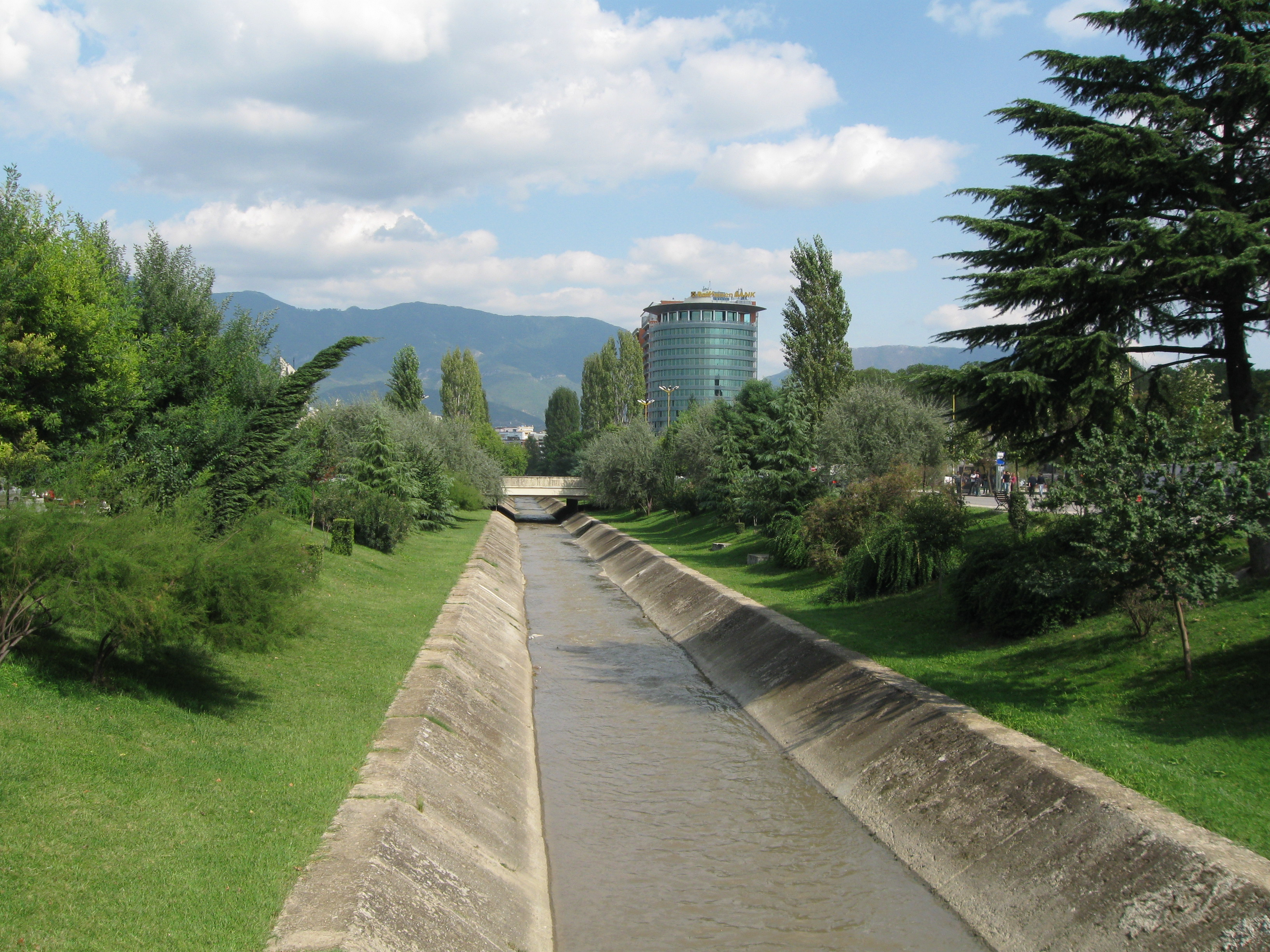 Lana River (Lumi Lana)